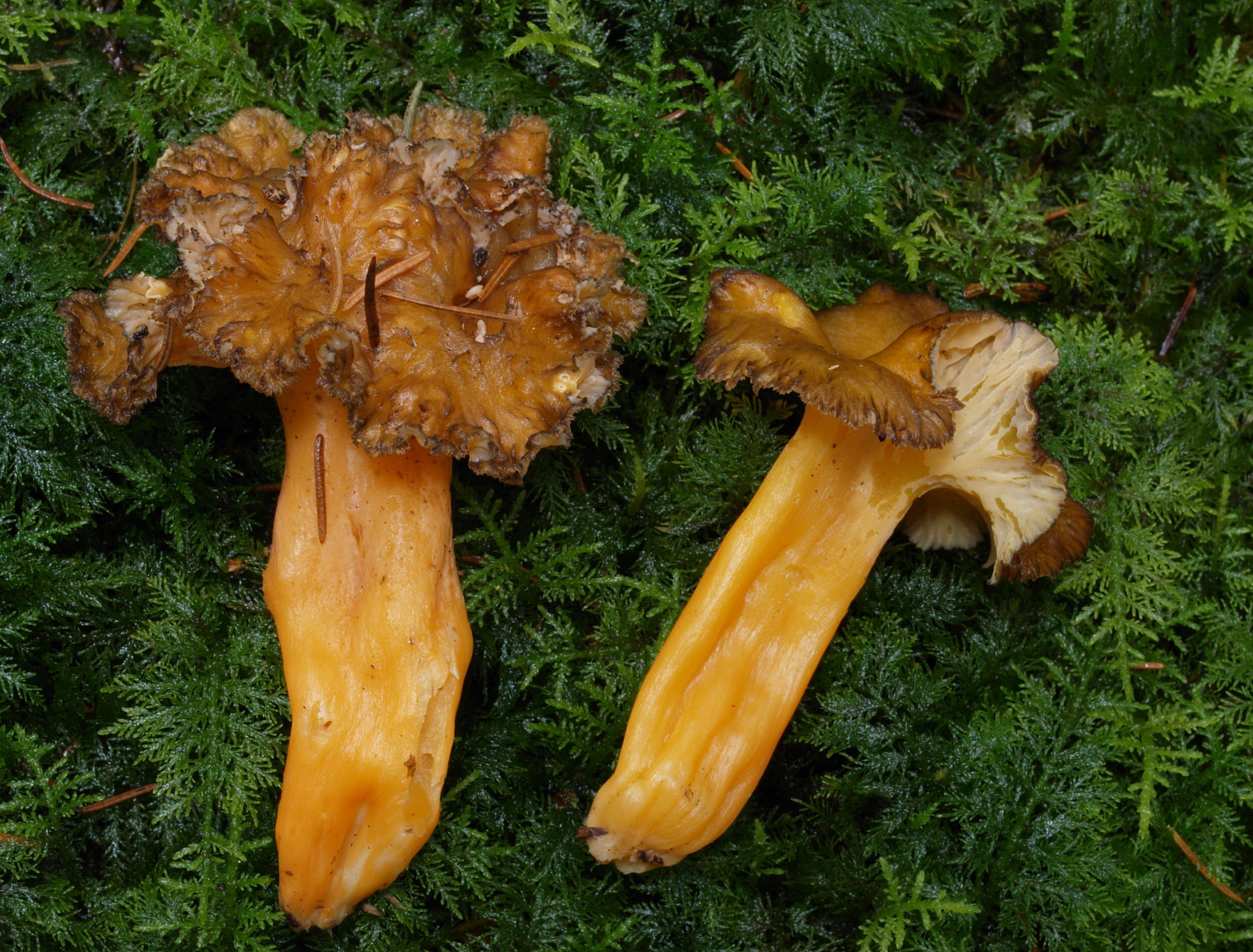 Golden Chanterelle (Craterellus lutescens)